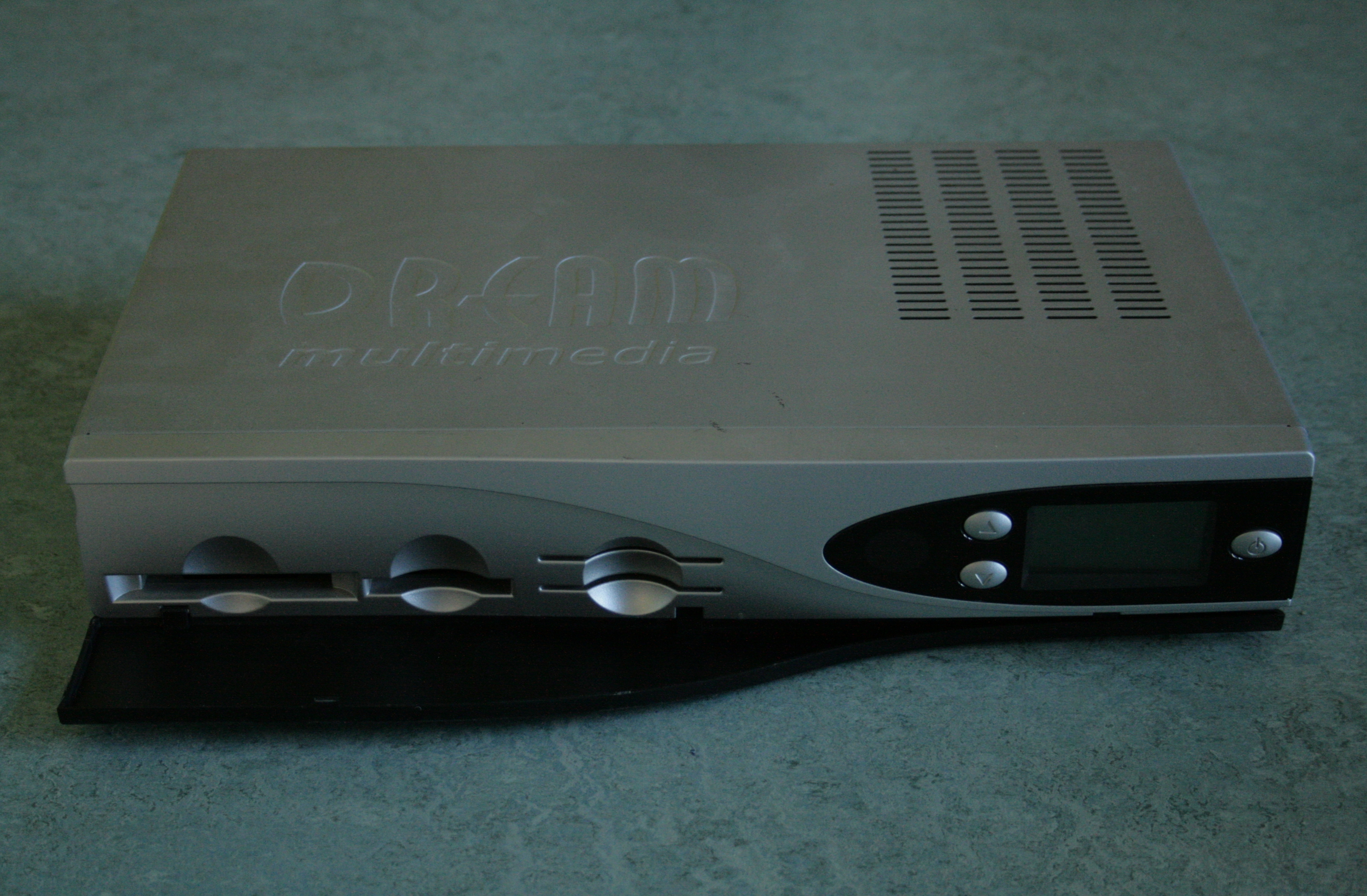 A Dreambox 7000-S